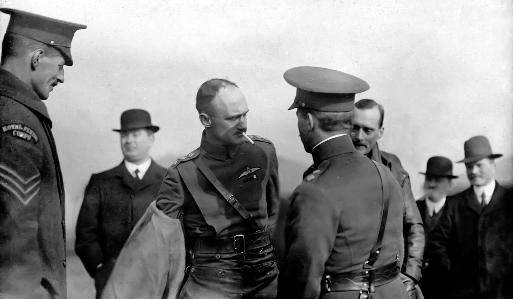 Captain Becke, No. 2 Squadron RFC, arriving at Upper Dysart on 26 February 1913. Captain Longcroft is on his left side